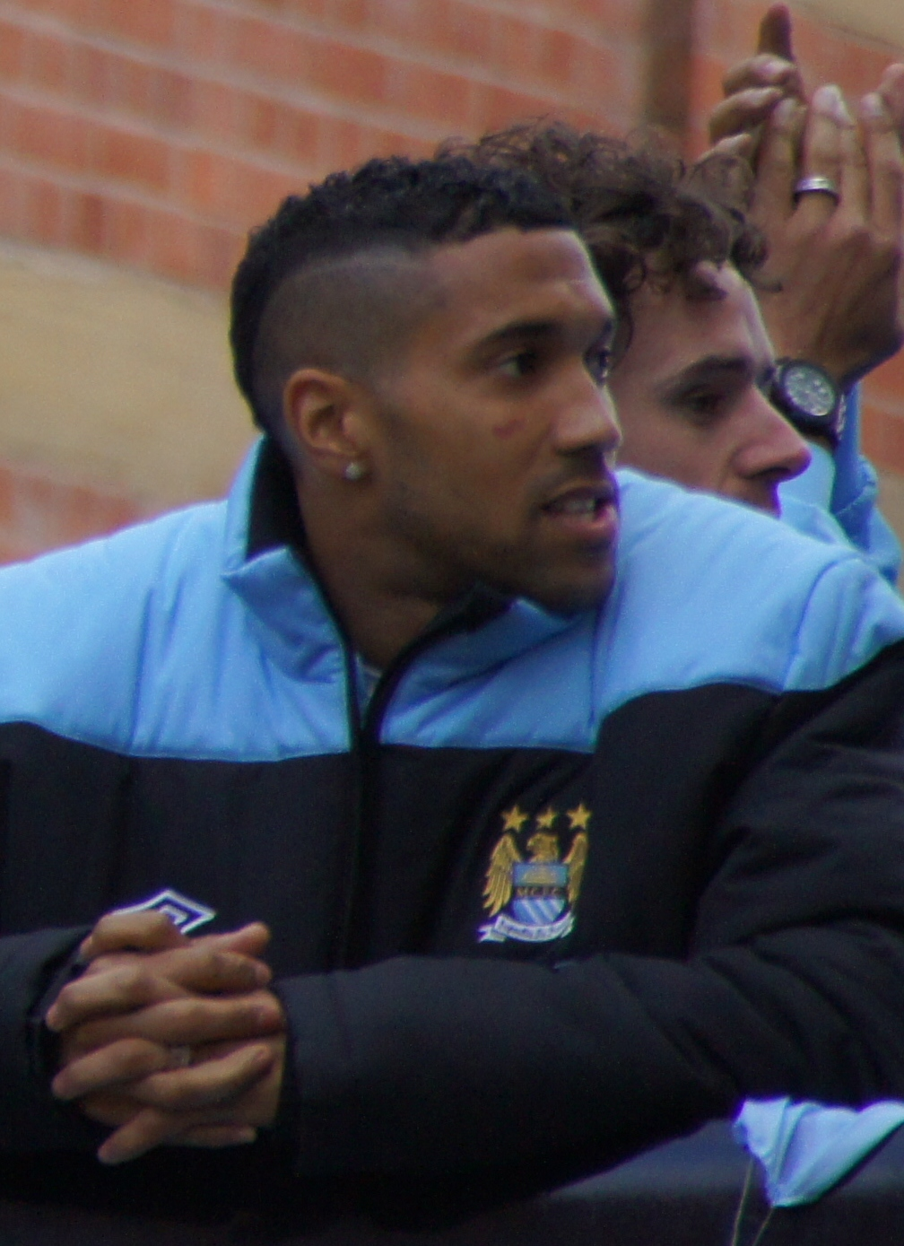 Gael Clichy in May 2012 following Manchester City's victorious Premier League season